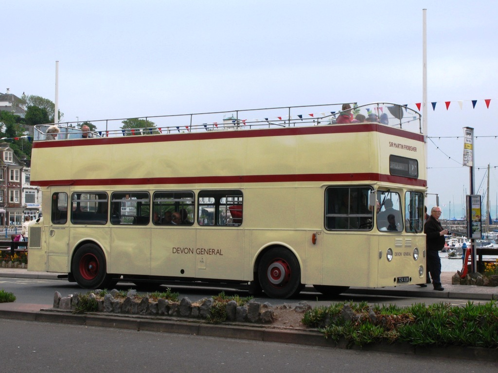 Preserved Devon General 'Sea Dog' open top Leyland Atlantean 927 Sir Martin Frobisher at Torquay Harbour. It was operating a special service to celebrate the 50th anniversary of the introduction of 'Sea Dogs' in 1961.